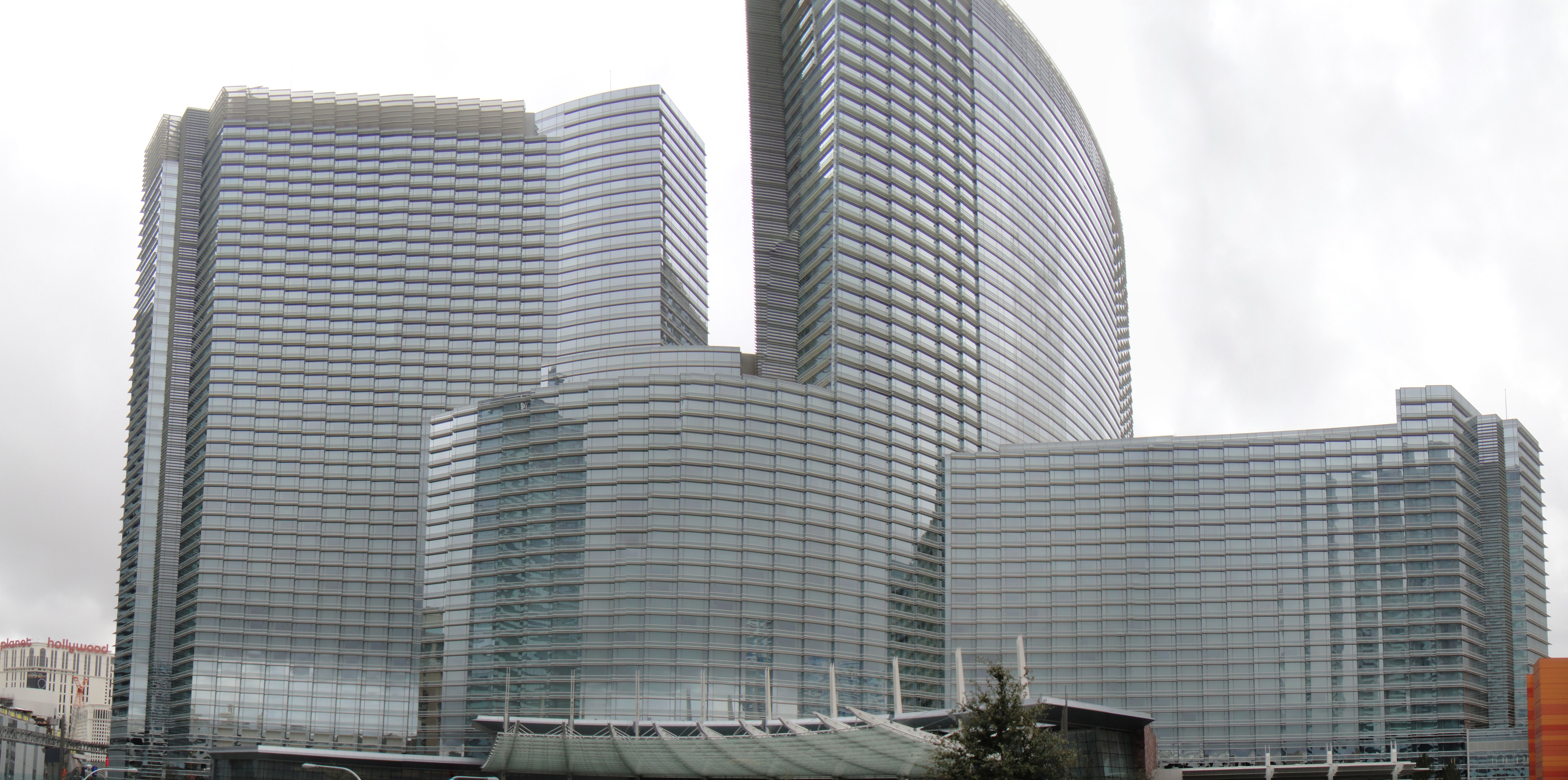 The west side of the Aria Resort & Casino in Las Vegas, Nevada